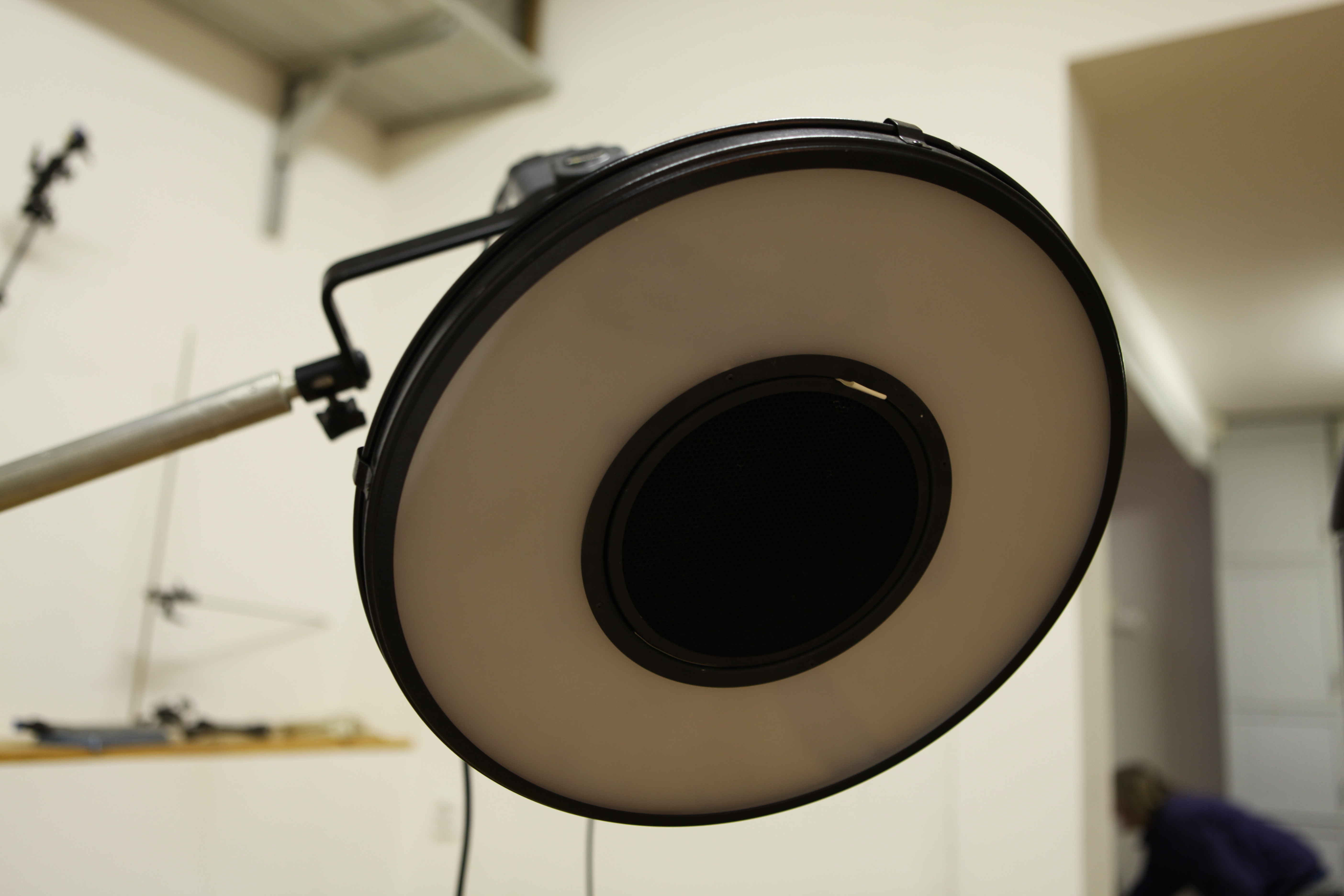 beauty dish s voštinami